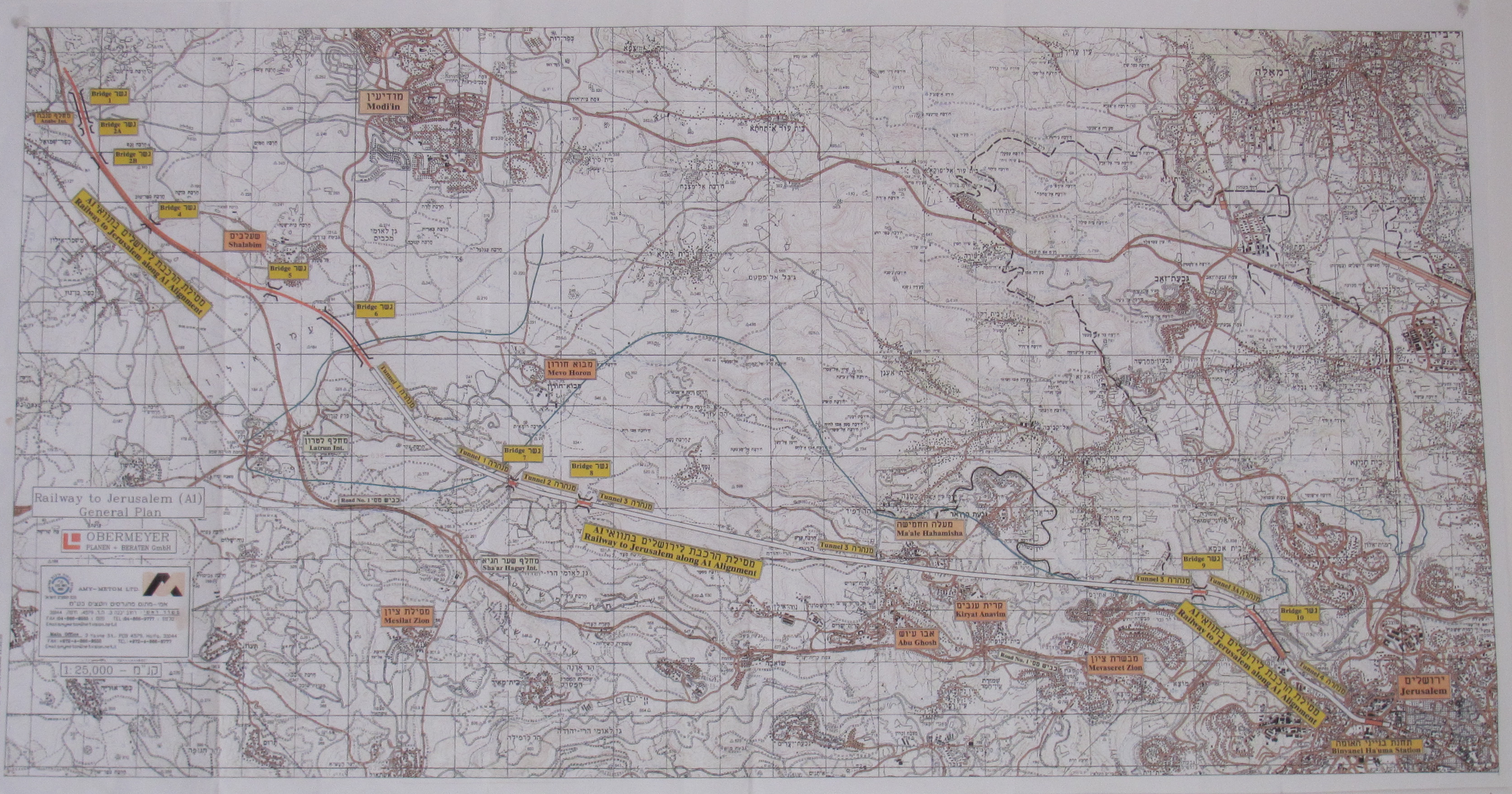 new Railway to Jerusalem, segment from Kfar Daniel to Jerusalem